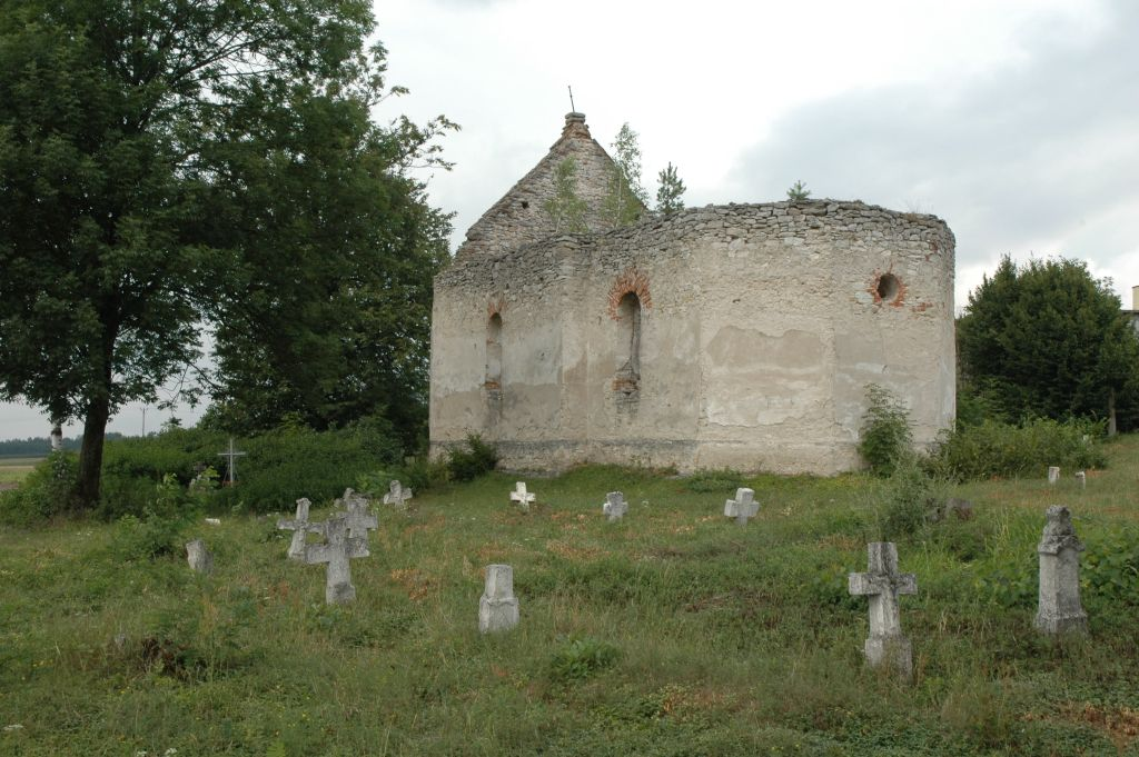 Poland, Huta Różaniecka - greek catholic church ruins.